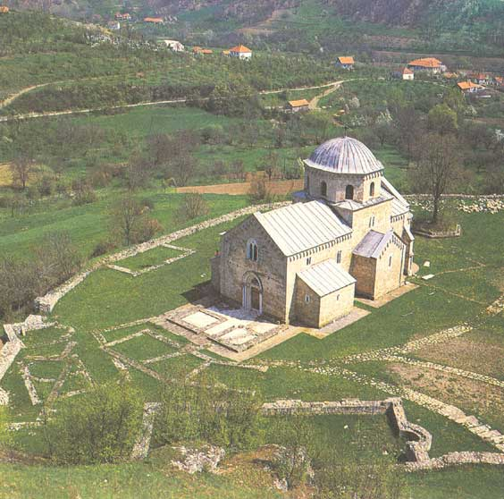 Serbian orthodox monastery of Gradac, Serbia/Le monastère orthodoxe serbe de Gradac, Serbie